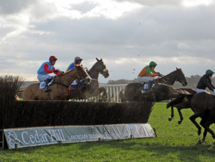 Horses jumping a fence at the Whittington races